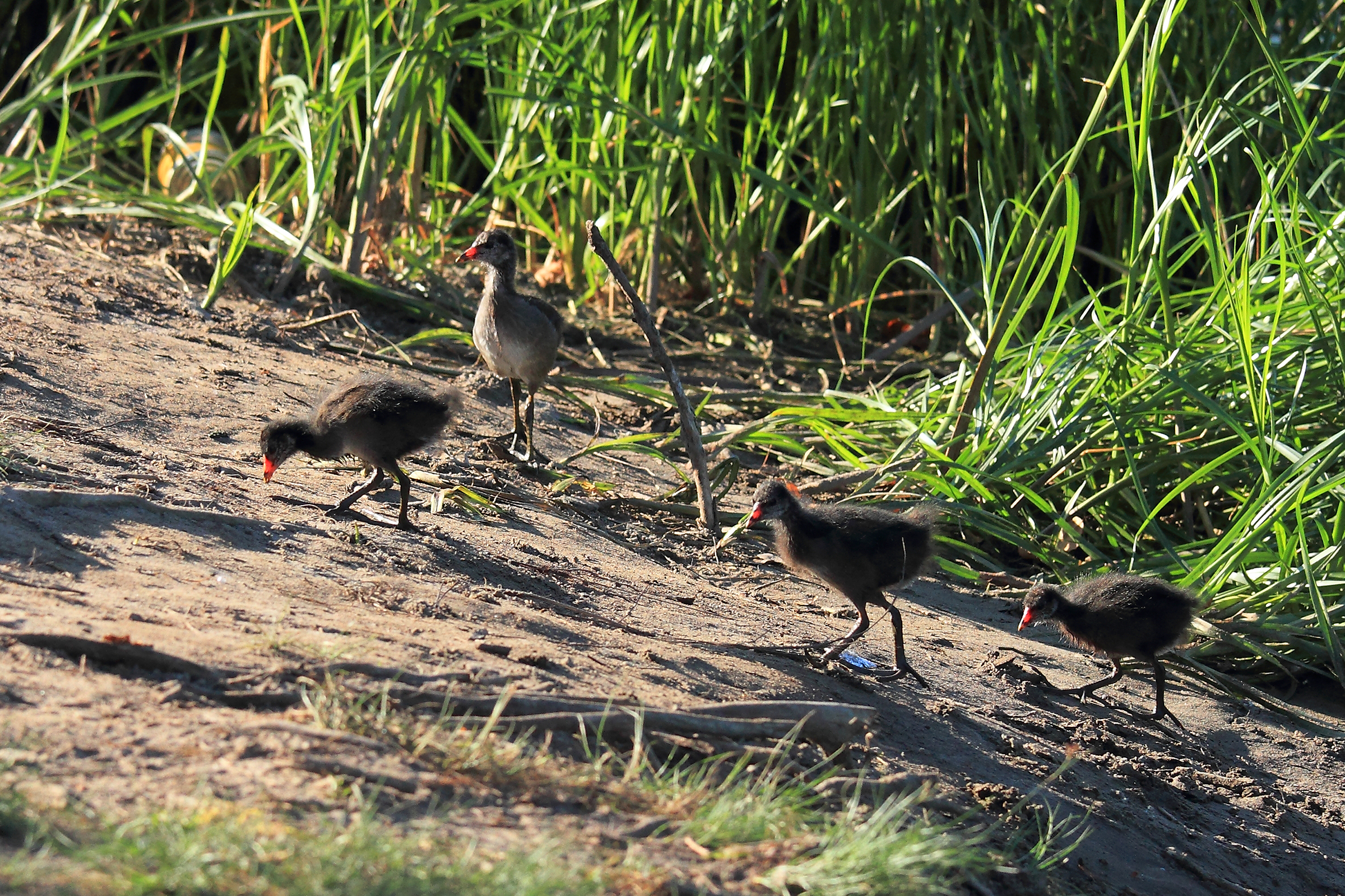 Moorhen chickens browsing on the shore of Tisza River at Tiszaalpár, Hungary